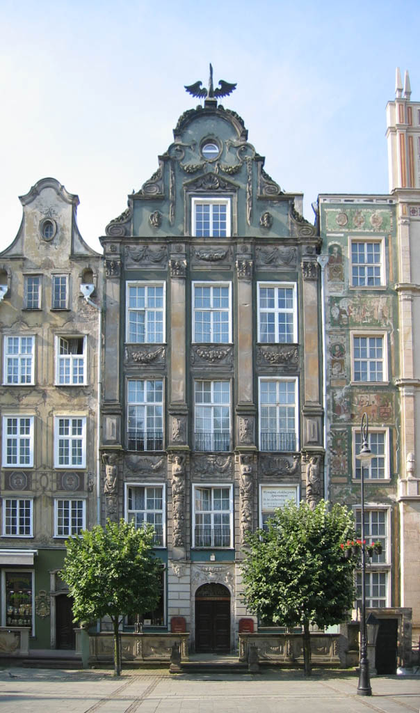 Gdansk, Poland, House 20, Dlugi Targ